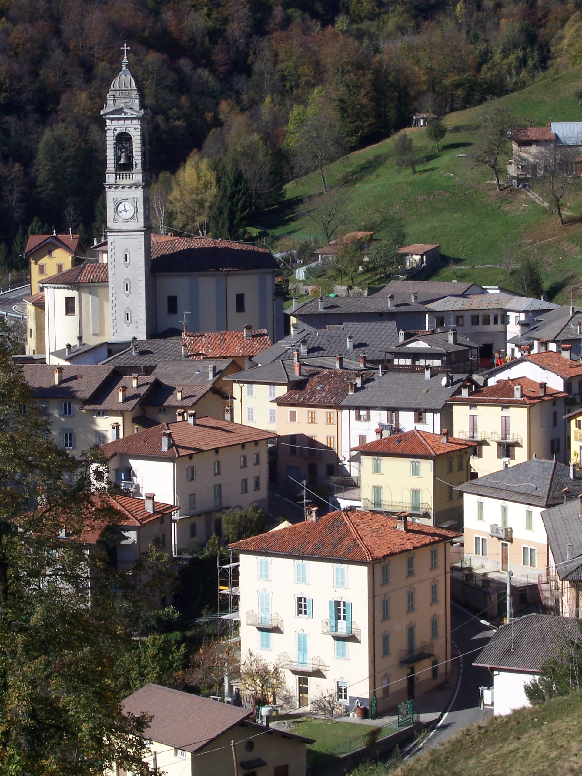 Vedeseta (detail), Lombardy, Italy